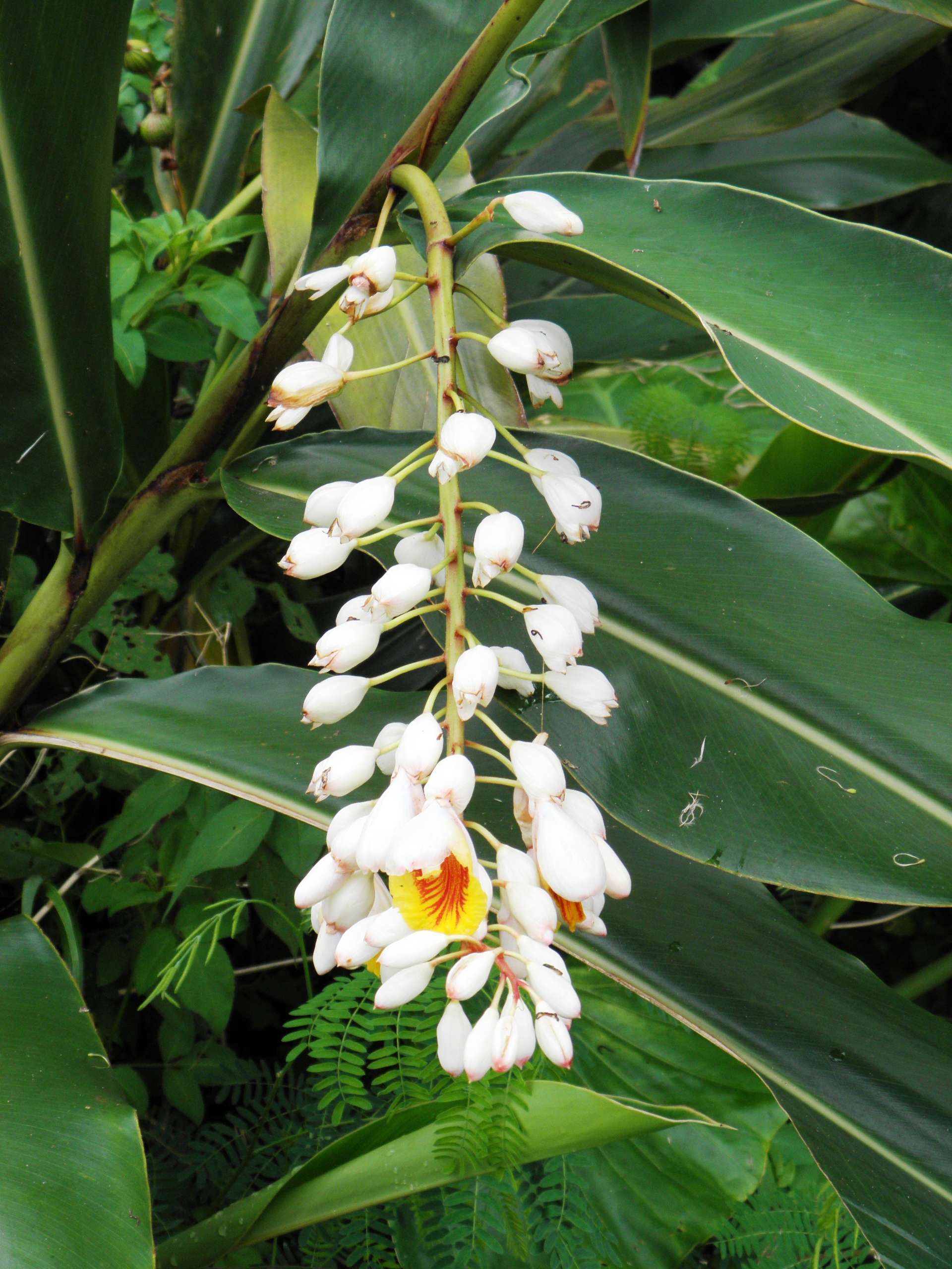 Flowers are shell-like, white and fragrant with yellow petals bearing red stripes.